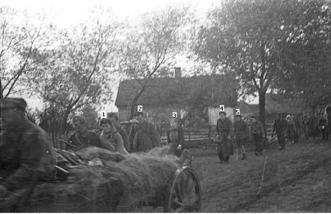 Kampinos Regiment during Warsaw Uprising